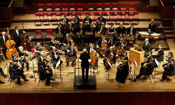 Orchestra of the 18th Century